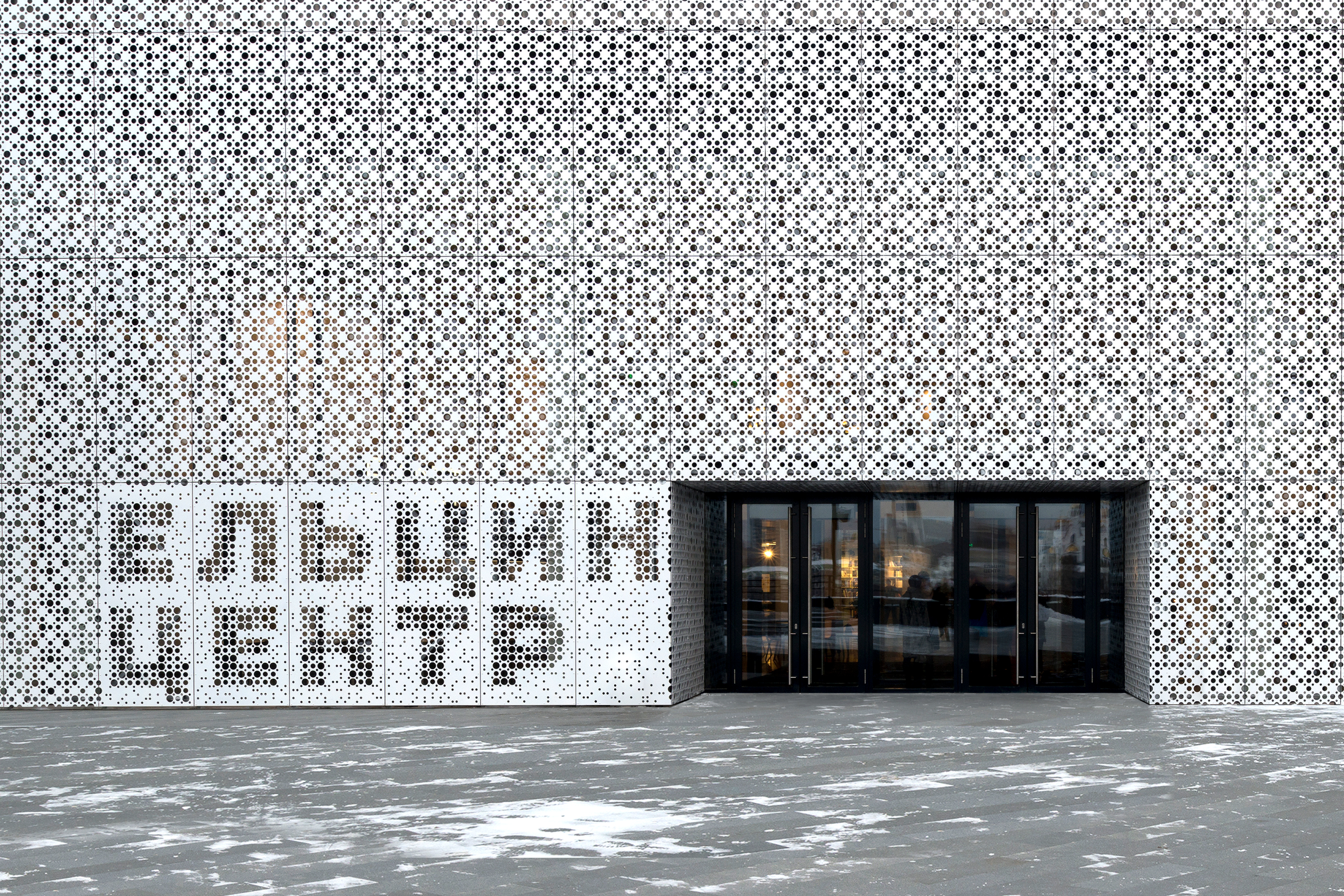 Entrance of the Boris Yeltsin Presidential Centre, Yekaterinburg, Russia